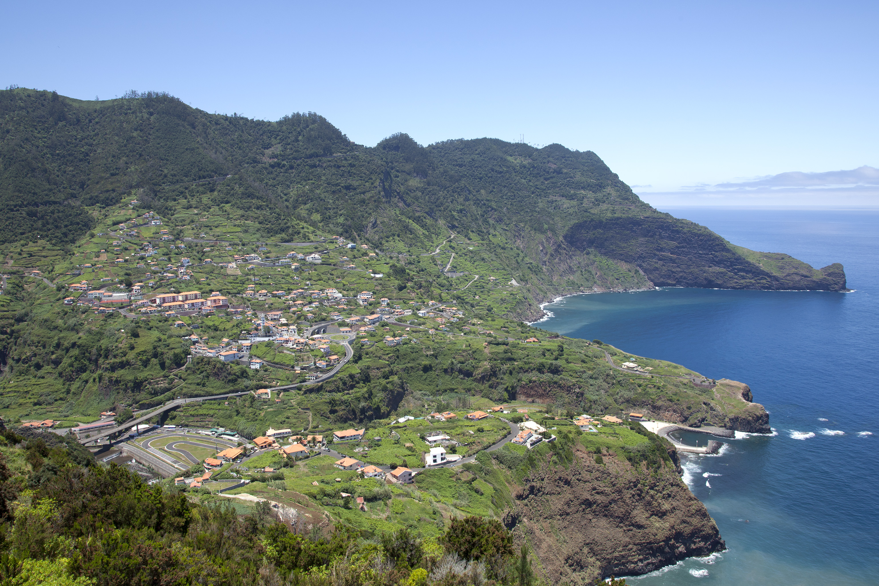 Faial (Madeira) seen from Penha de Águia (Eagle Rock)